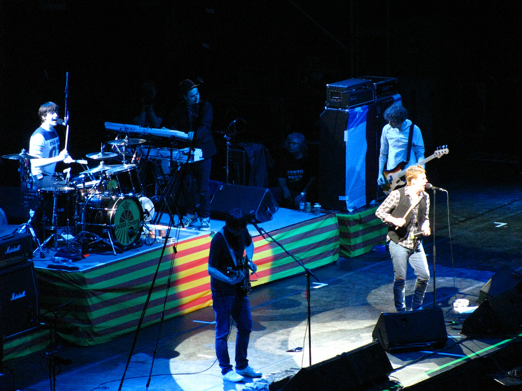 Kaiser Chiefs playing in Chile 2008